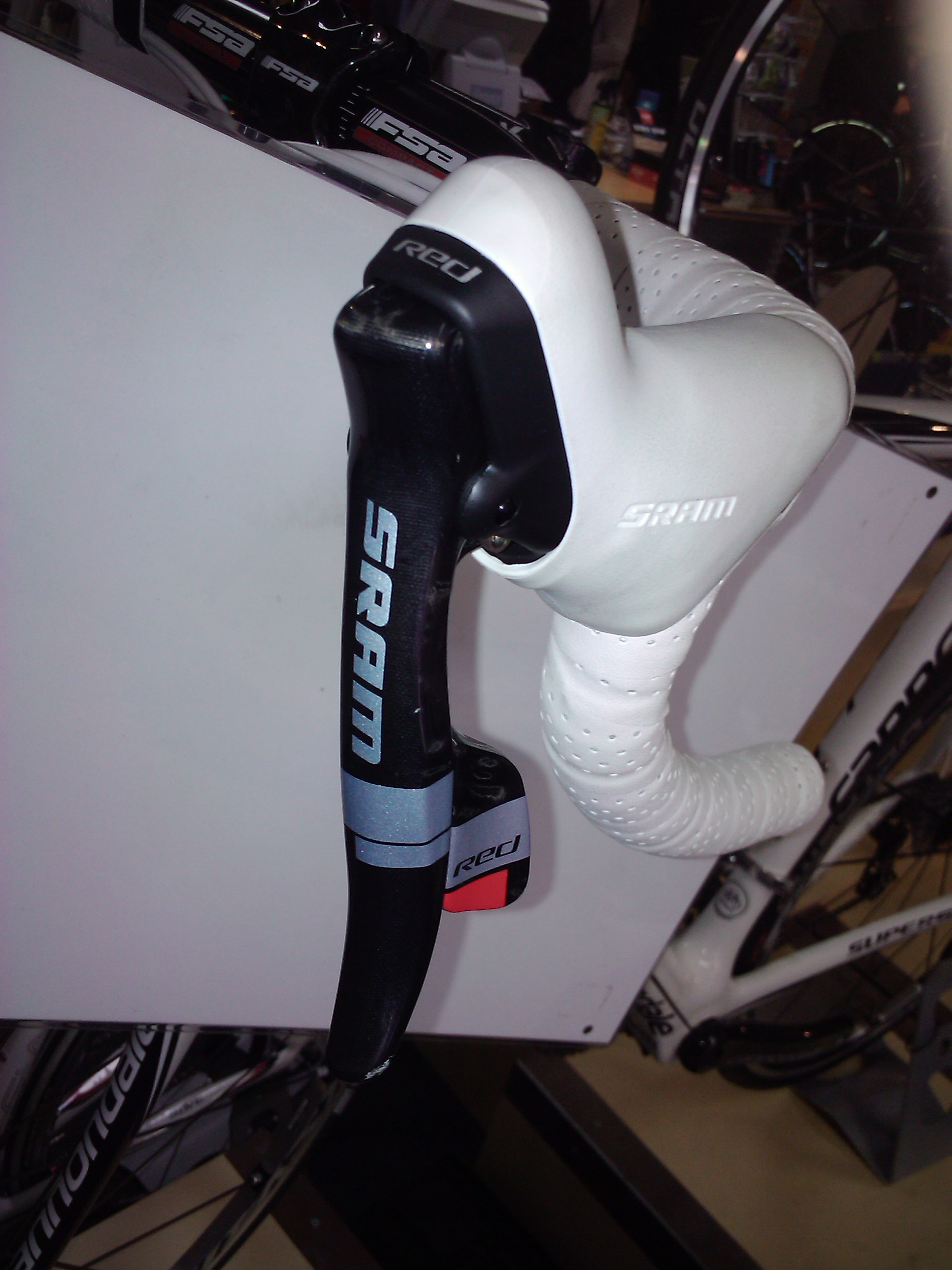 SRAM Double Tap bicycle gear shifter and brake lever